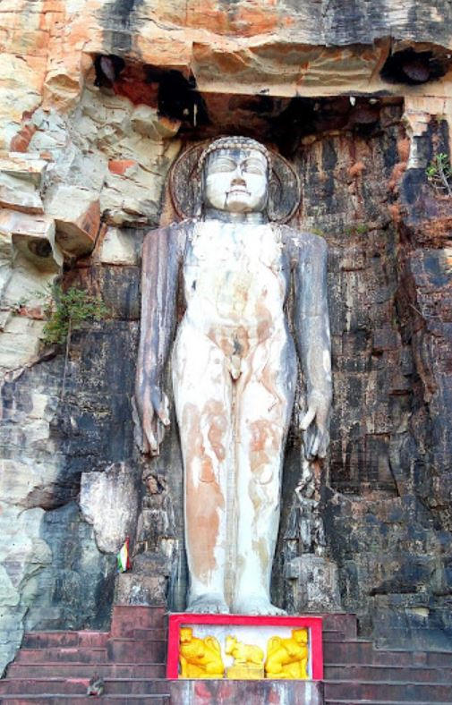 Rock Cut Carving of Jain Tirthankara Rishabhnath